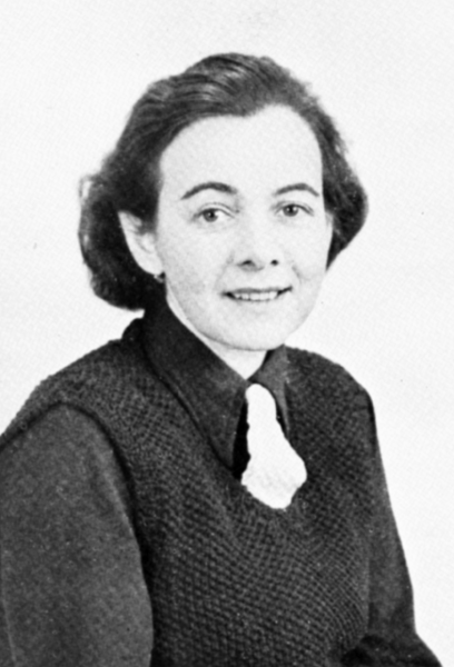 Picture of author Karin Boye.